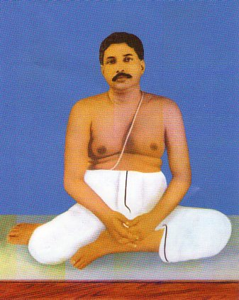 A picture of Sri Sri Thakur Anukulchandra